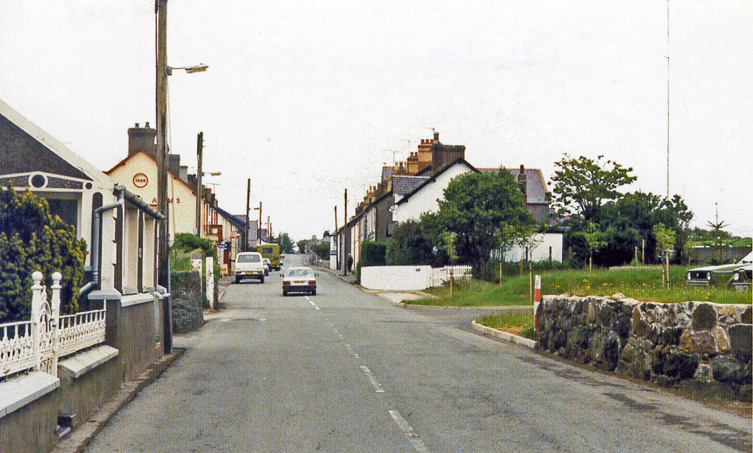 Site of Chwilog station, 1986. View westward on B4354 towards Nefyn, where the former ex-LNW (Bangor) - Caernarvon (to left) - Afon Wen (to right) line used to cross. No railway relics are visible now, the station and line having been closed since 7/12/64.